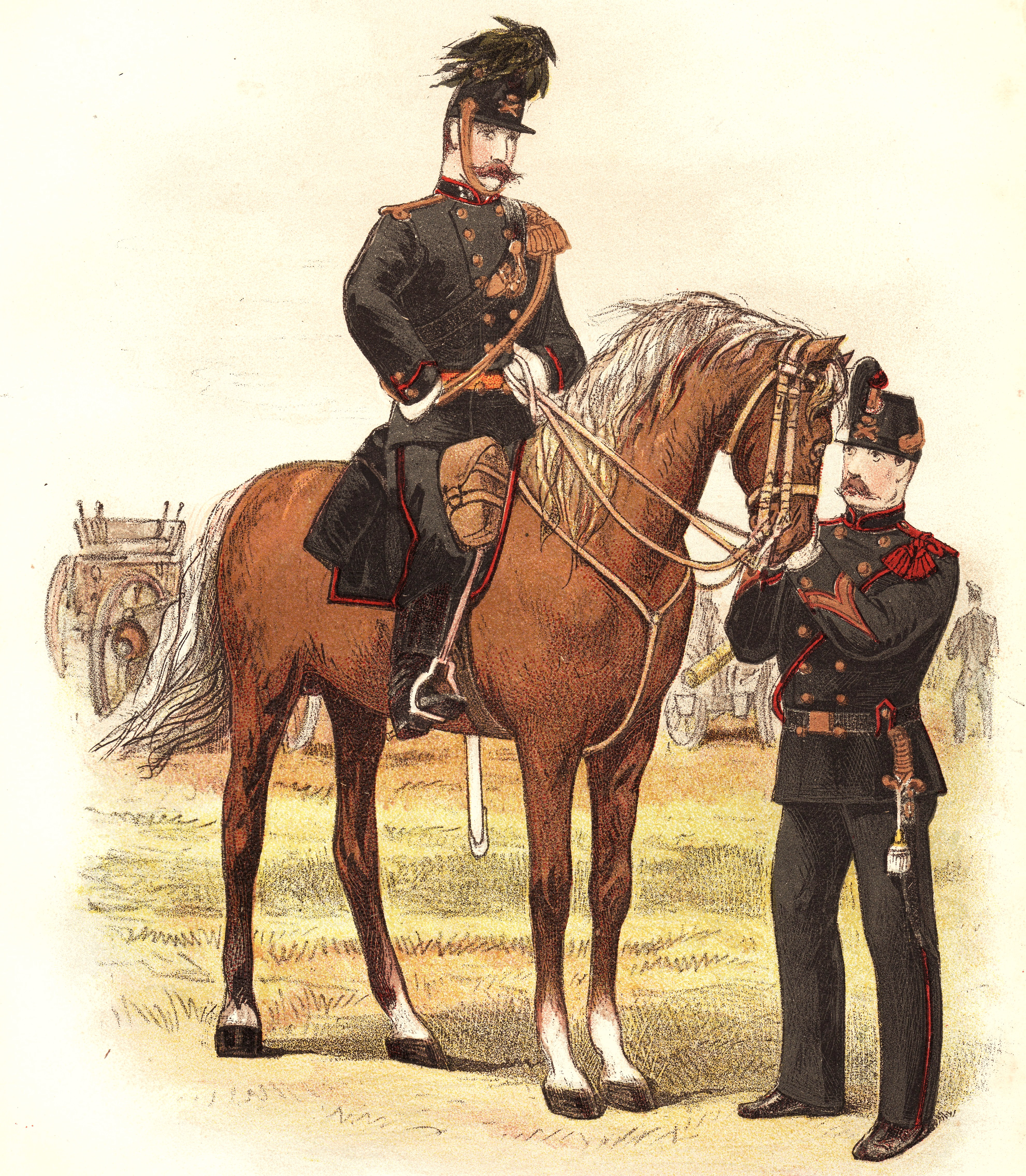 Veld en vestingartillerie